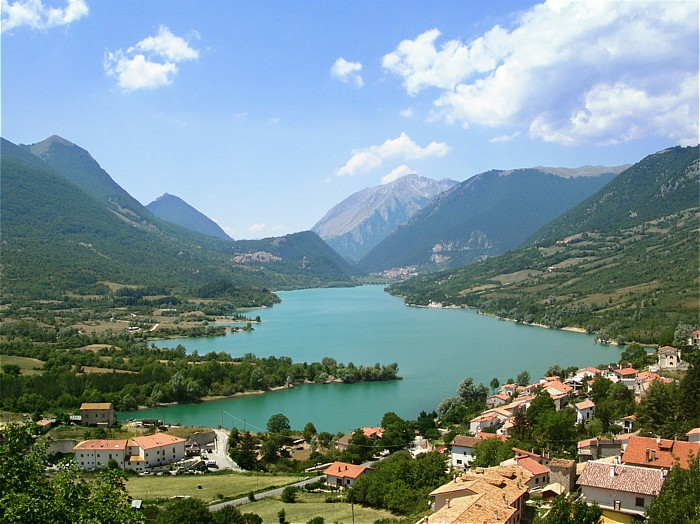 Lago di Barrea picture taken by user Idéfix , july 2006